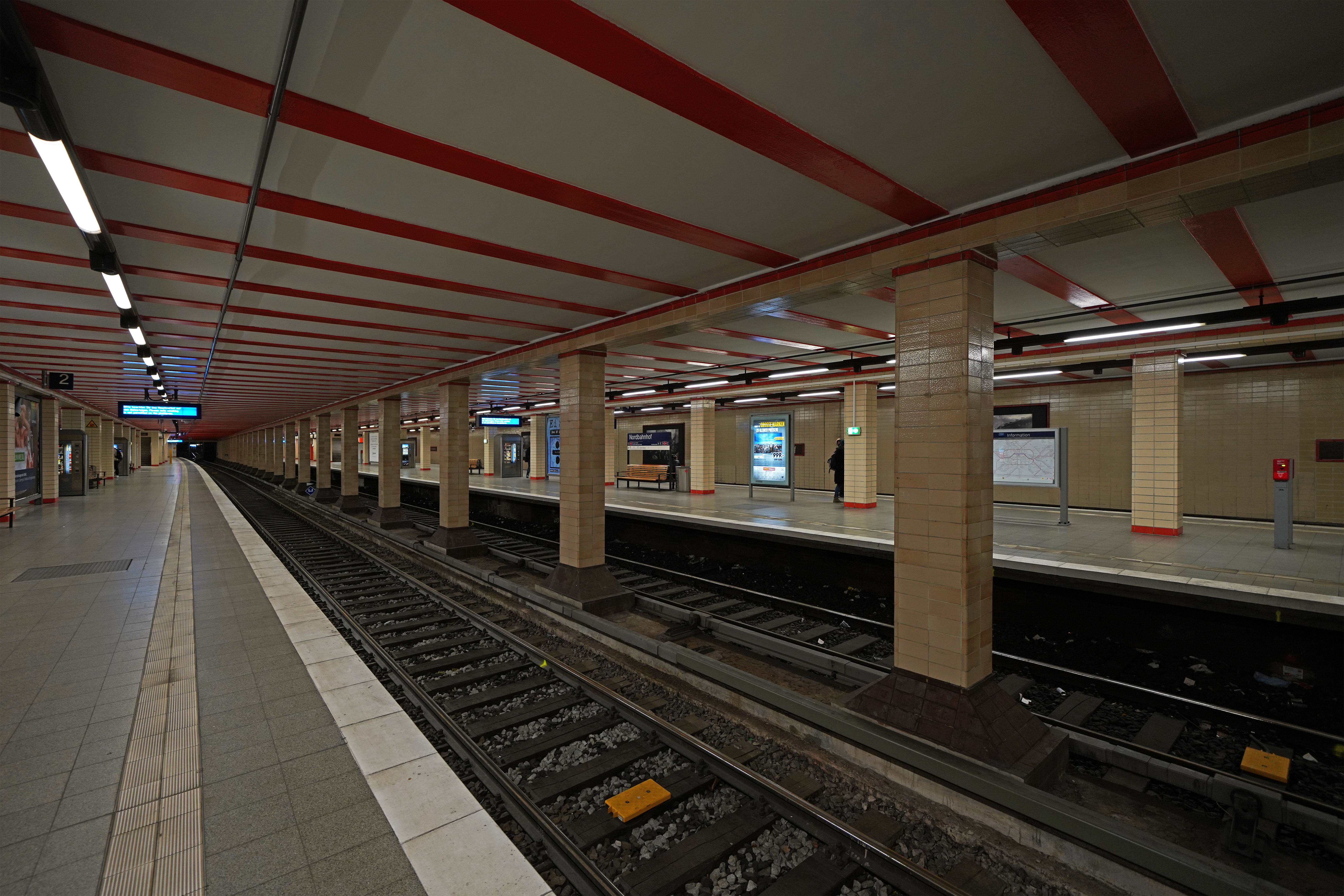 Platforms of Nordbahnhof S-Bahn station, Berlin (Germany)